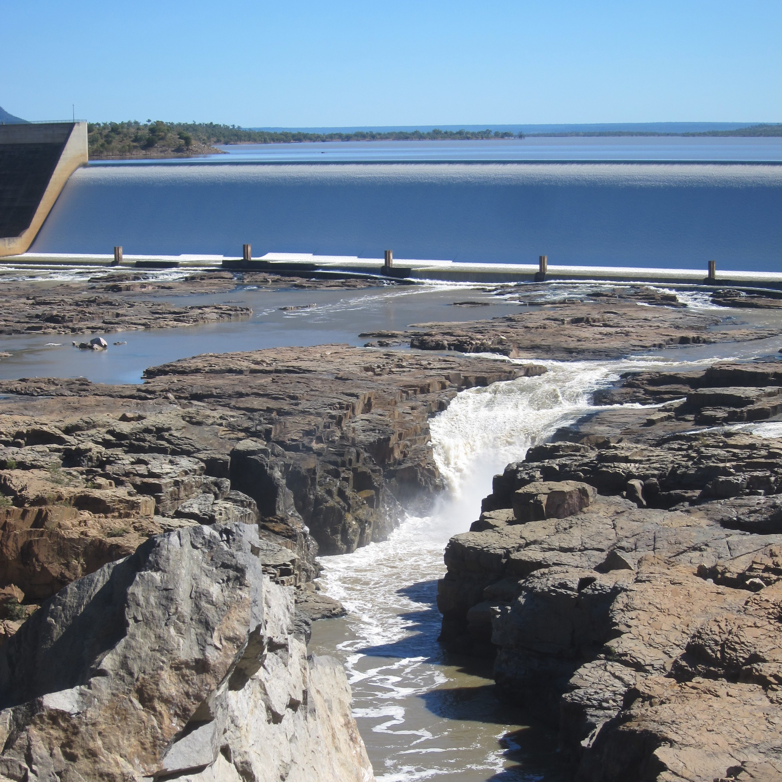 mapstory